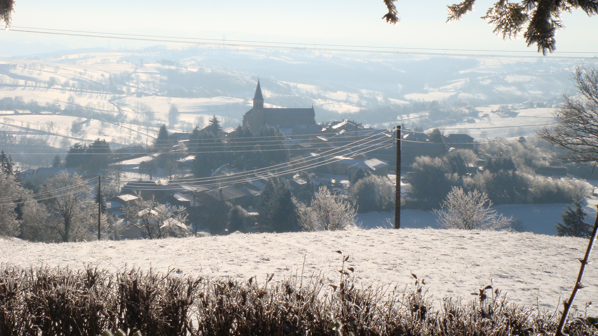 La Gresle, seen from the Madonna statue early fall